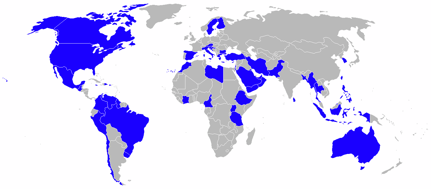 World map of Bell 206 operators